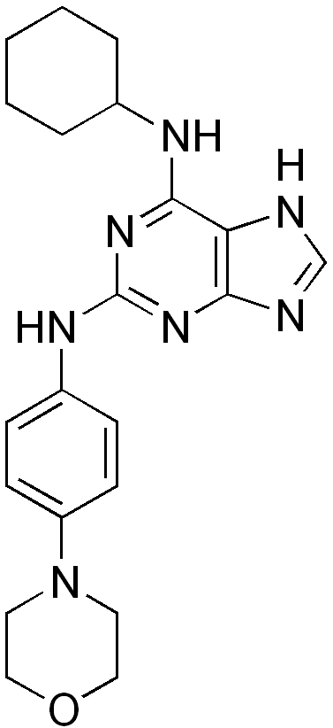 chemical structure of reversine